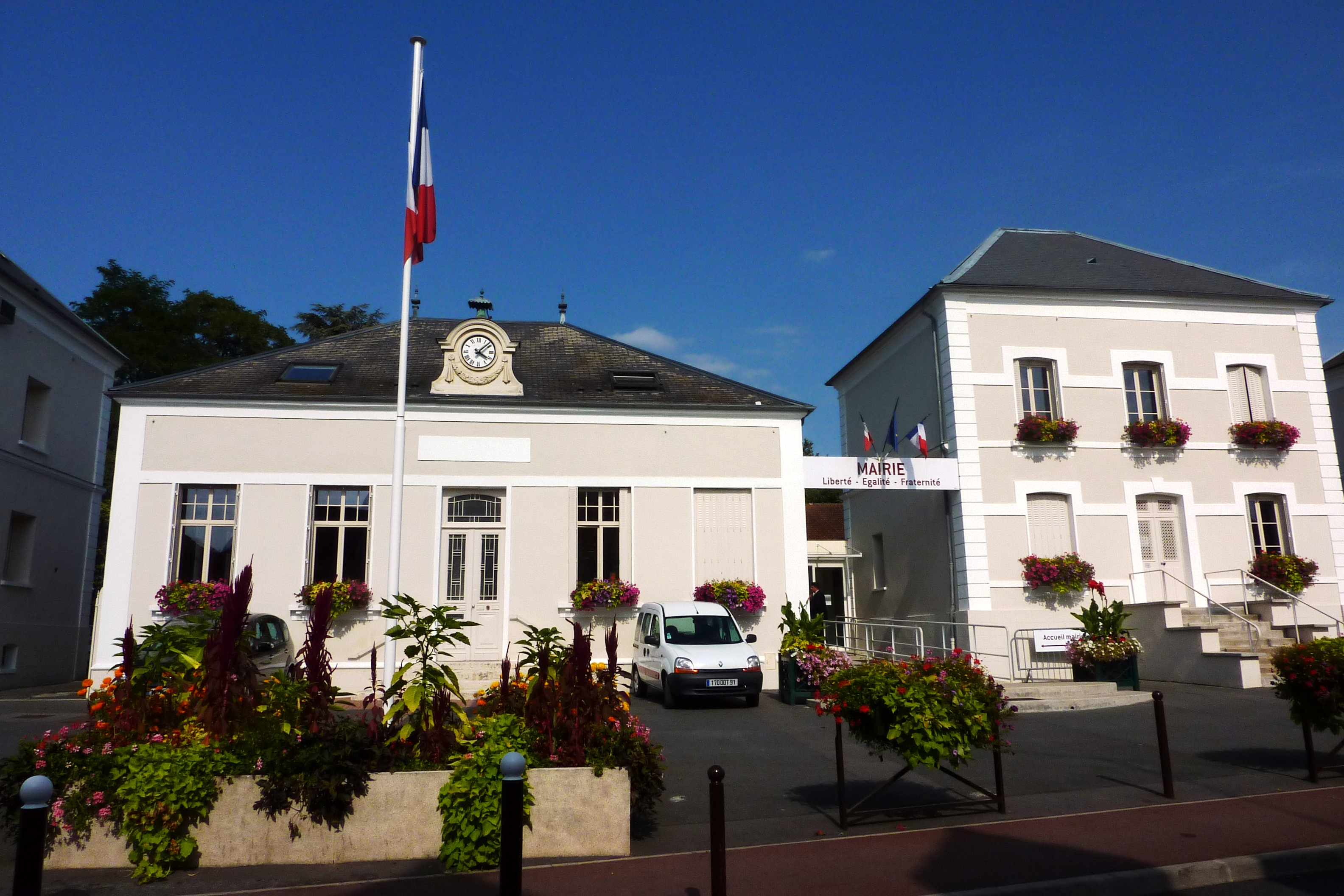 City hall of Bretigny (Essonne)